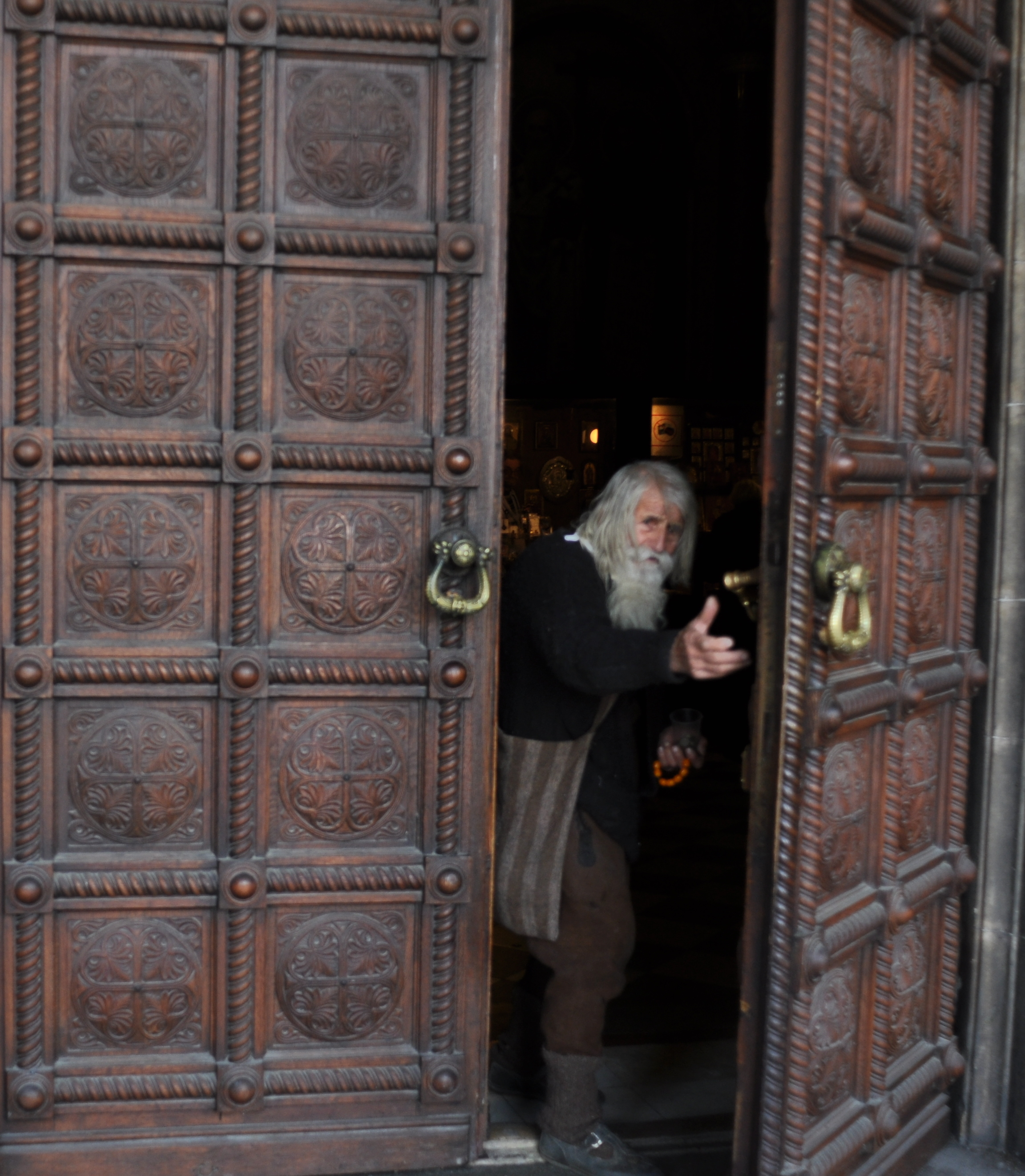 Dobri Dimitrov Dobrev